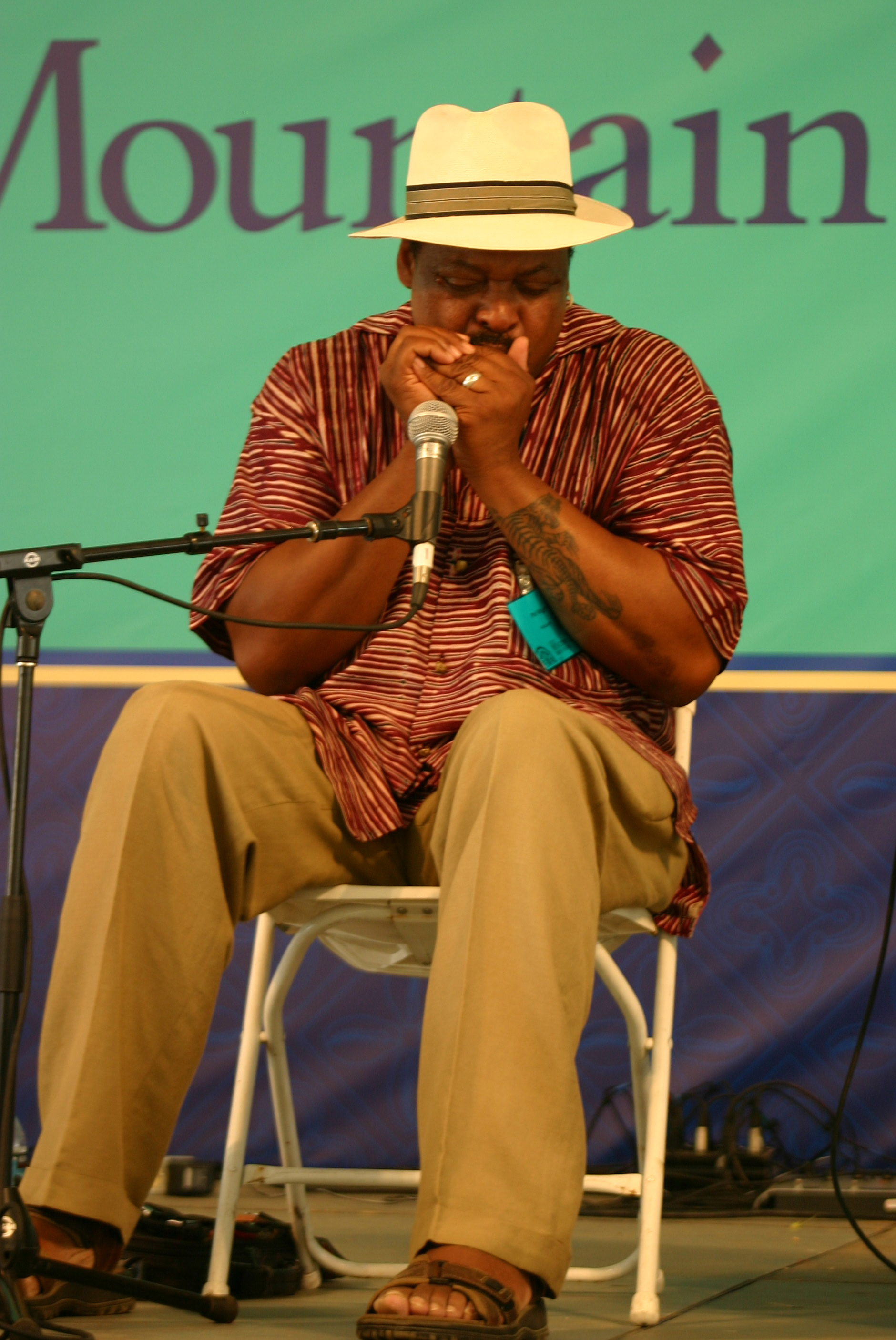 Phil Wiggins of Cephas and Wiggins . . Roots of Virginia . Mountain Laurel Stage . 41st Annual Smithsonian Folklife Festival . . Opening Day . National Mall, NW, Washington DC . Wednesday, 27 June 2007 . . Elvert Xavier Barnes Photography